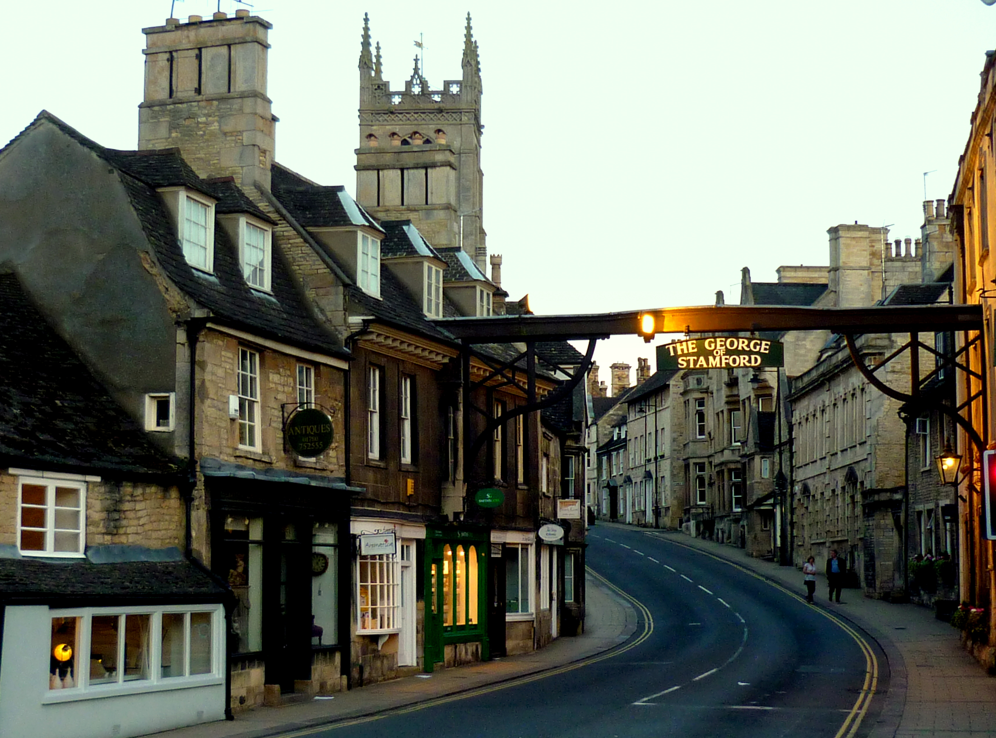 The view from Stamford Bridge looking up the hill towards the George Hotel.